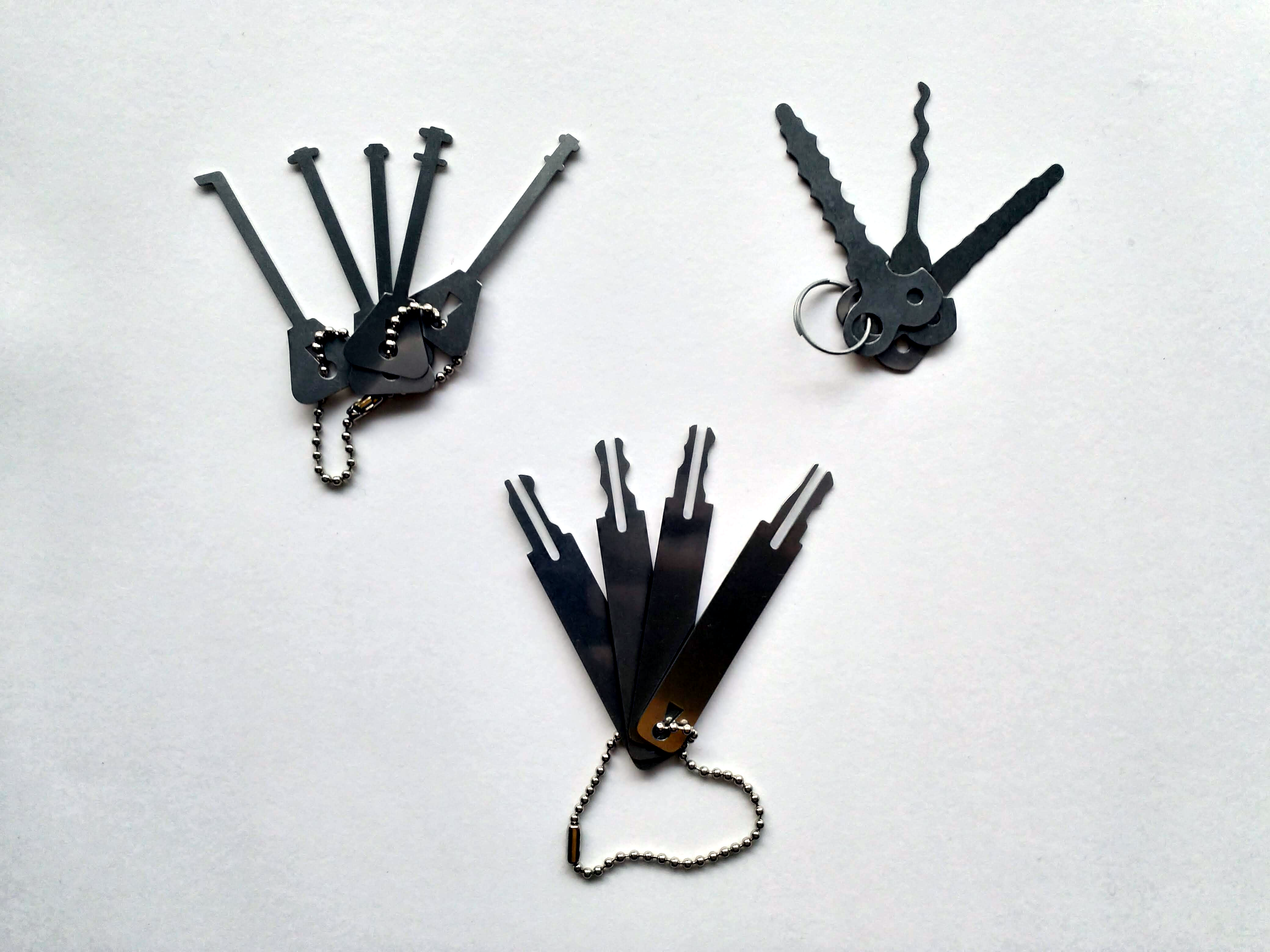 Jiggler keys and tryout keys used to open weak locks when the matching keys are not available. The key is inserted into the lock and it is jiggled and turned in hopes of getting the lock to open. Since they are not actual keys there is no guarantee that the lock will open. Top left ones are used for warded locks, top right ones for car door wafer locks and bottom ones for filing cabinet wafer locks.